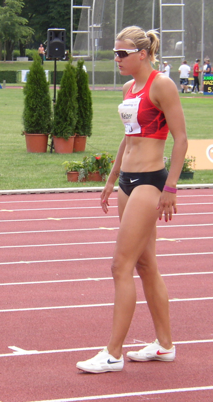 Athlete Jolanda Keizer of the Netherlands prepares for her attempt in long jump during women's heptathlon at 5th edition of the TNT - Fortuna Meeting (IAAF World Combined Events Challenge Meeting, Sletiště Stadium, Kladno, Czech Republic, 16 June 2011, 11:51).